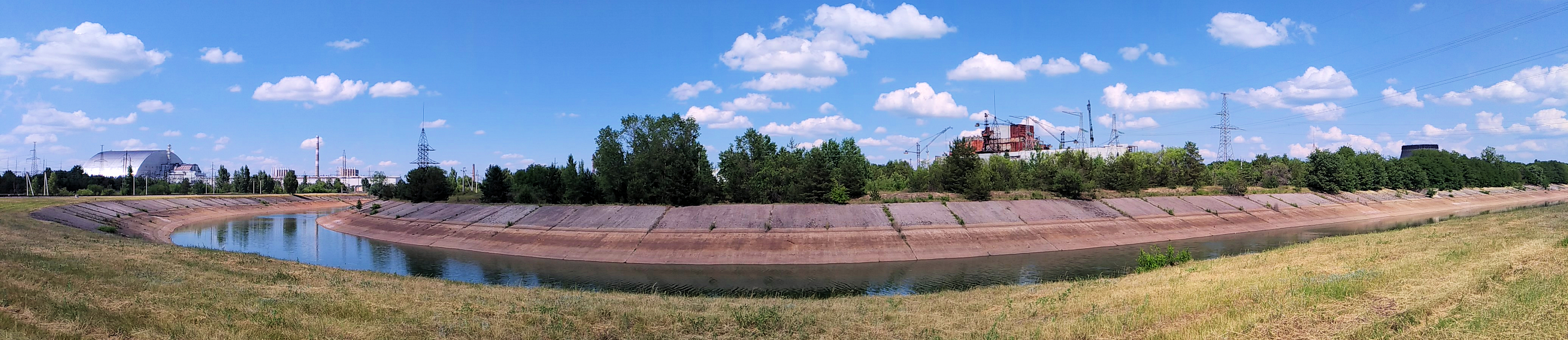 Chernobyl nuclear power plant in June 2019